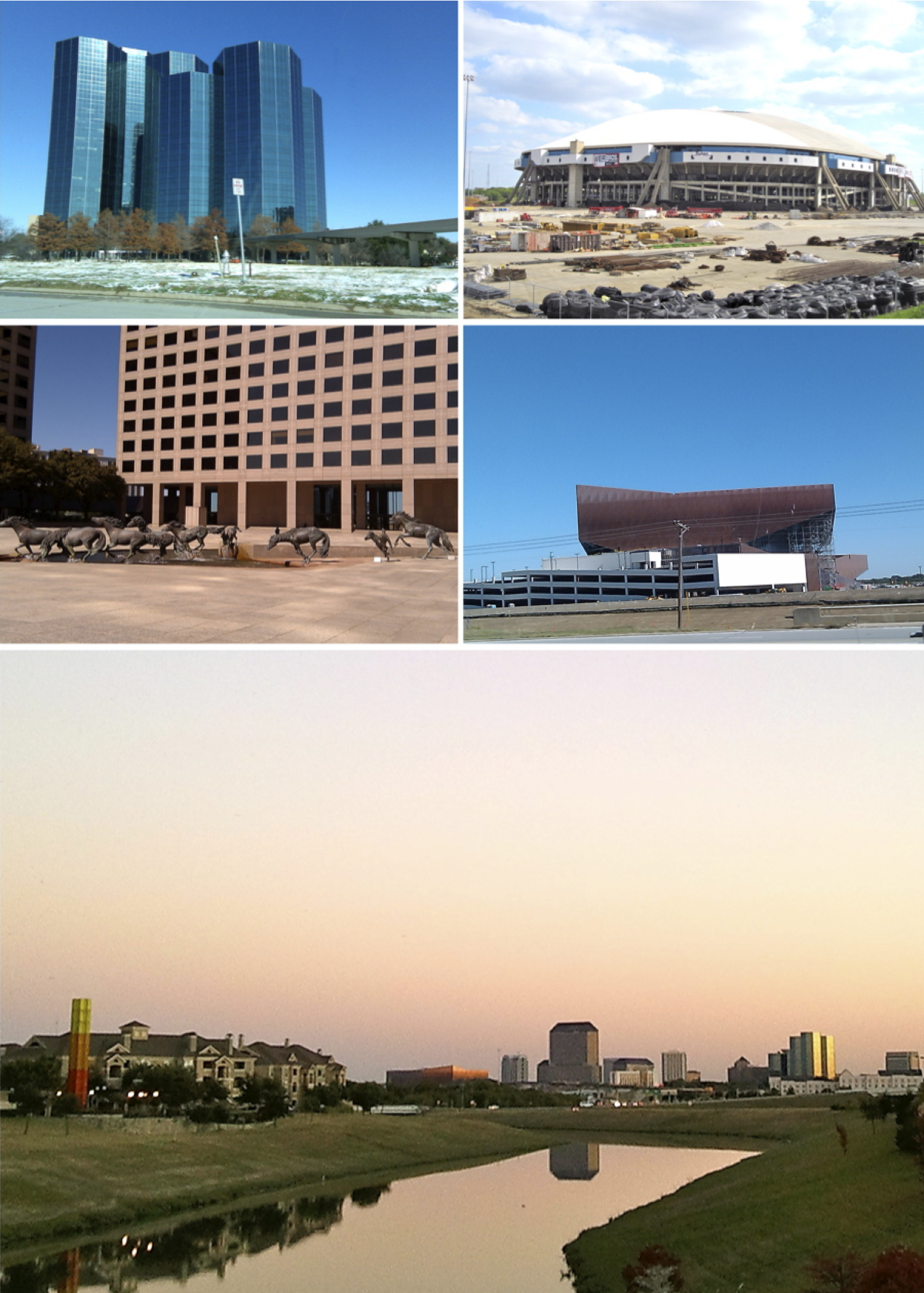 A collage of pictures that I took of Irving, Texas